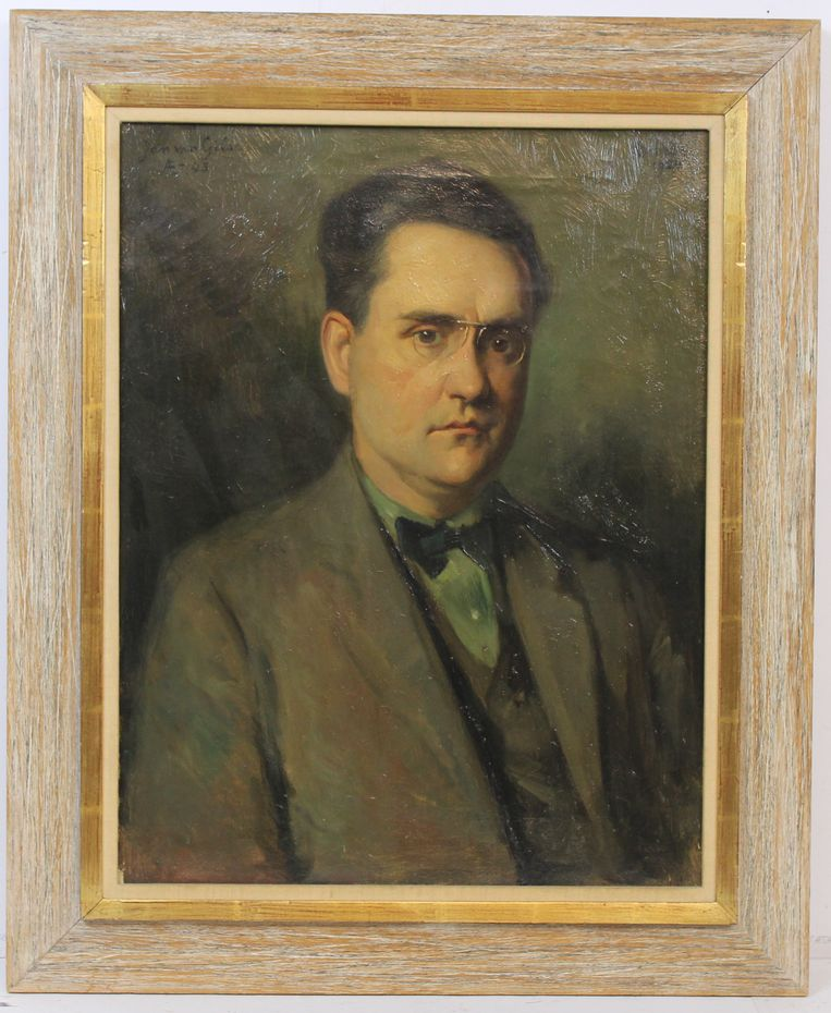 Dutch composer Jan van Gilse. Painting by Heinrich Martin Krabbé